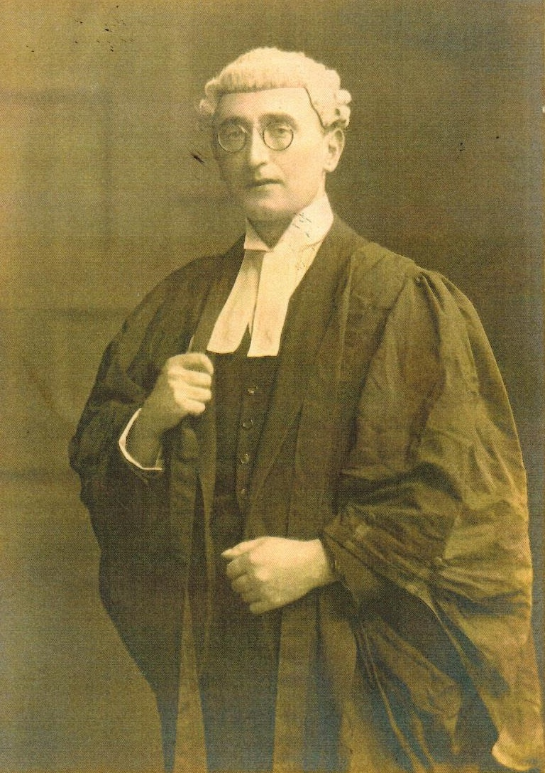 Shalom Horowitz